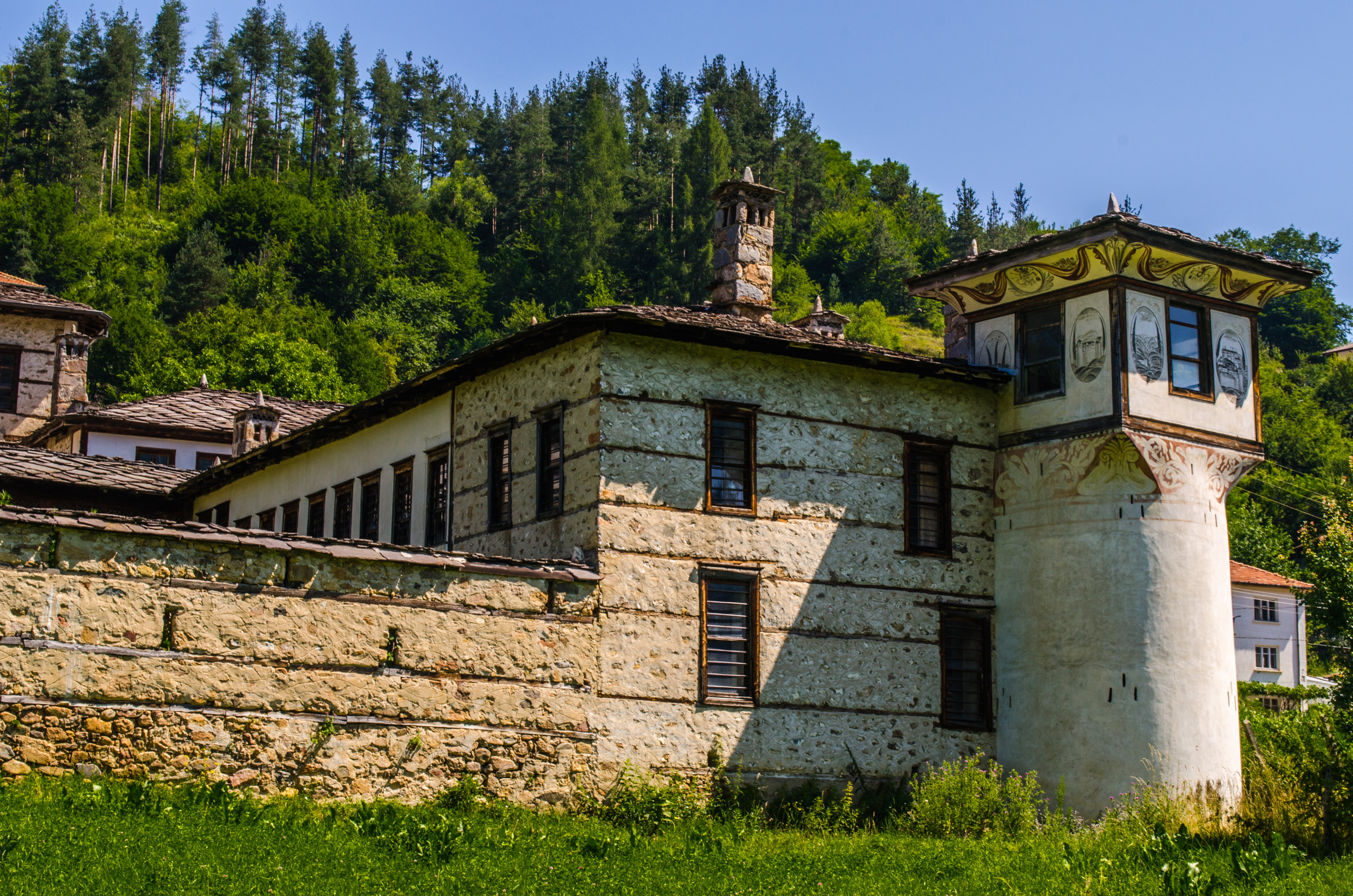 Agushevi konatsi